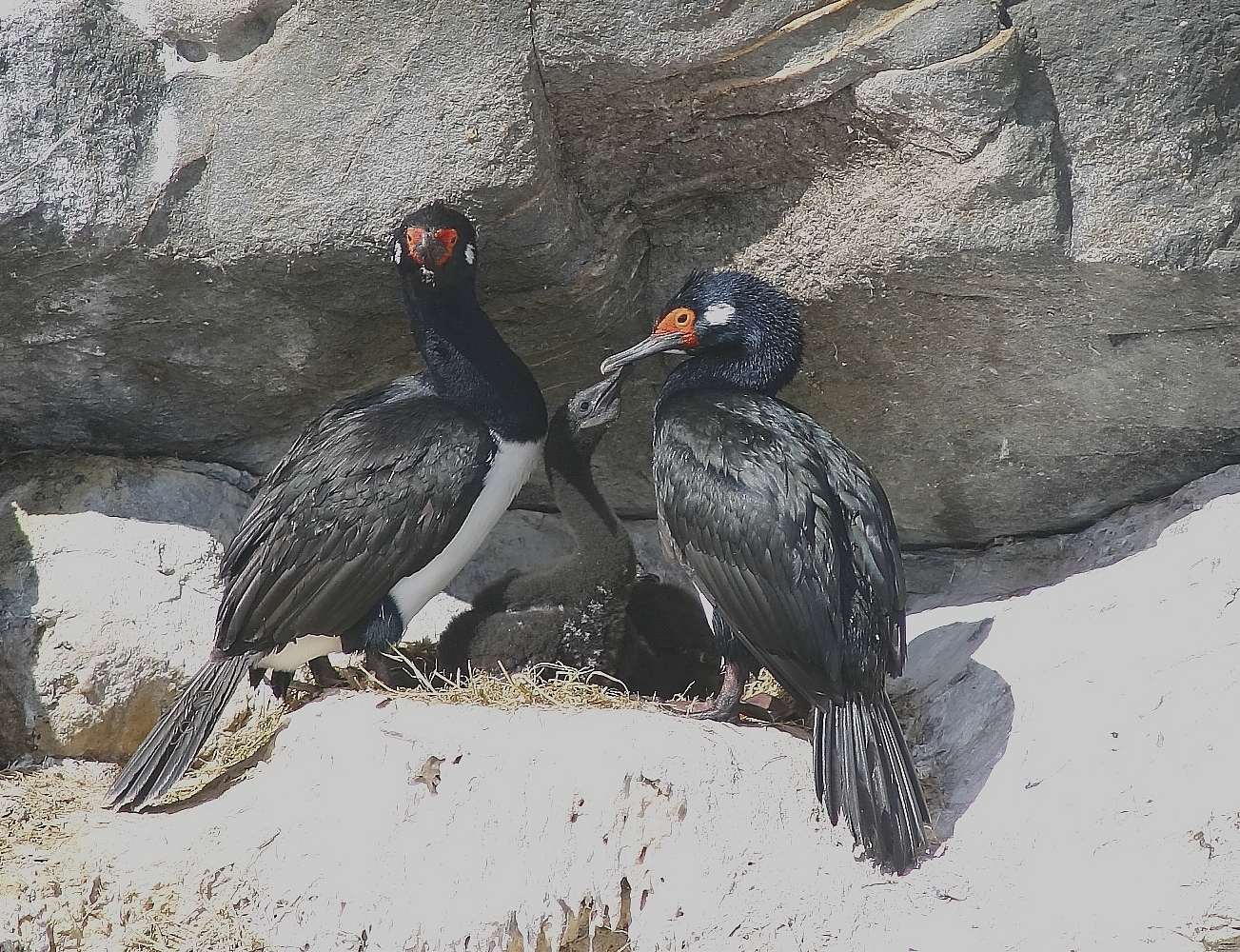 Magellan Cormorant (Couple feeding a cub) at Beagle Channel - Argentina